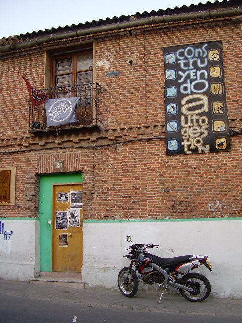 A squat in Móstoles, Madrid. Cultural events and concerts are usual in that place. It's a place of meeting for young neighbours, as well.